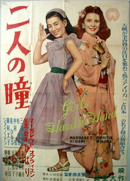 1953 movie poster for 1952 Japanese movie Girls Hand in Hand (二人の瞳 Futari no hitomi) featuring Hibari Misora (on the left) and Margaret O'Brien (on the right).